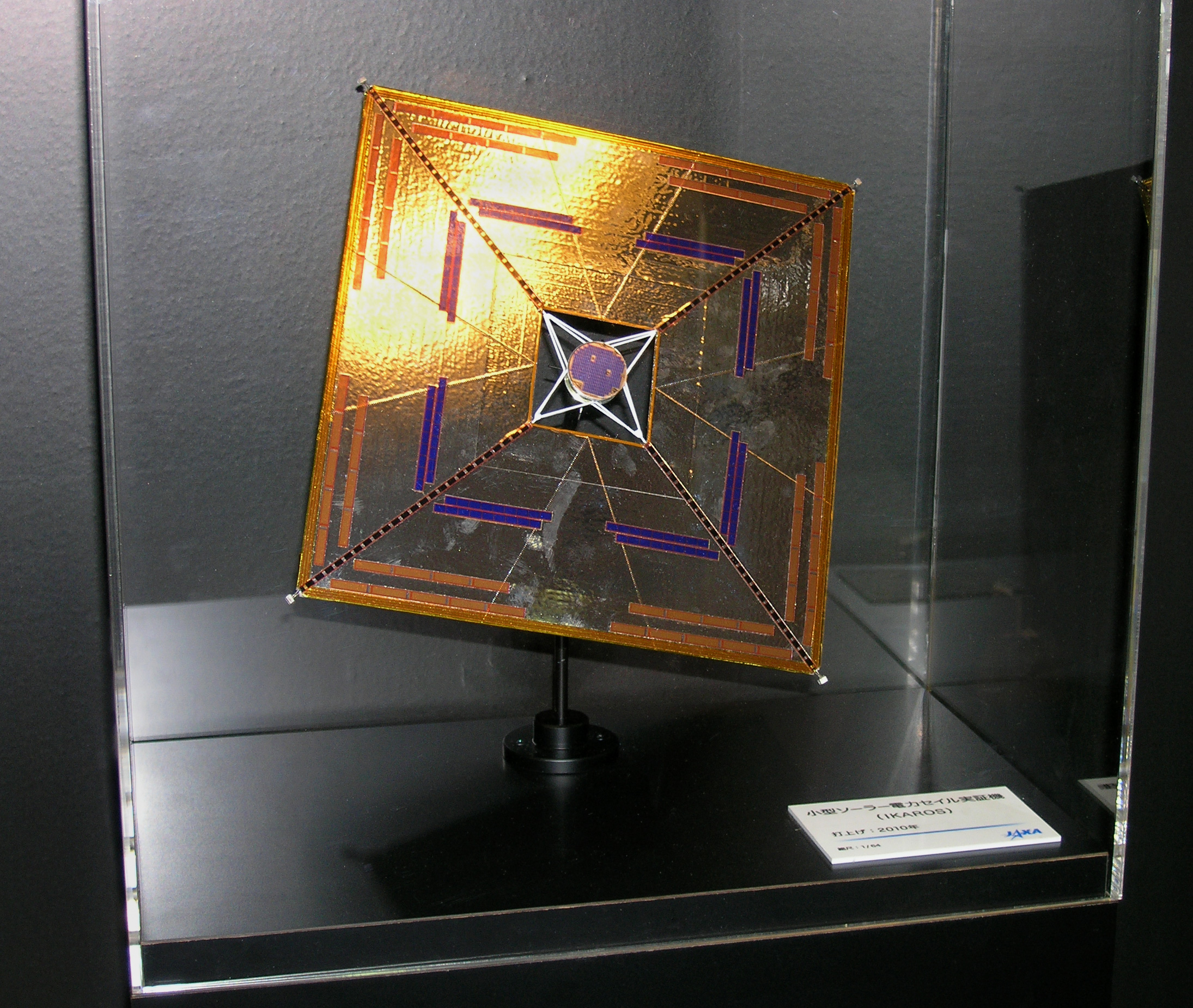 Model of the Japanese interplanetary unmanned spacecraft IKAROS at the 61st International Astronautical Congress in Prague, Czech Republic